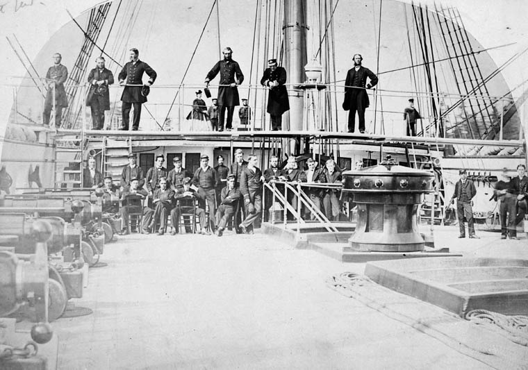 Officers of H.M.S. SUTLEJ, flagship Pacific. Possibly at Esquimalt.